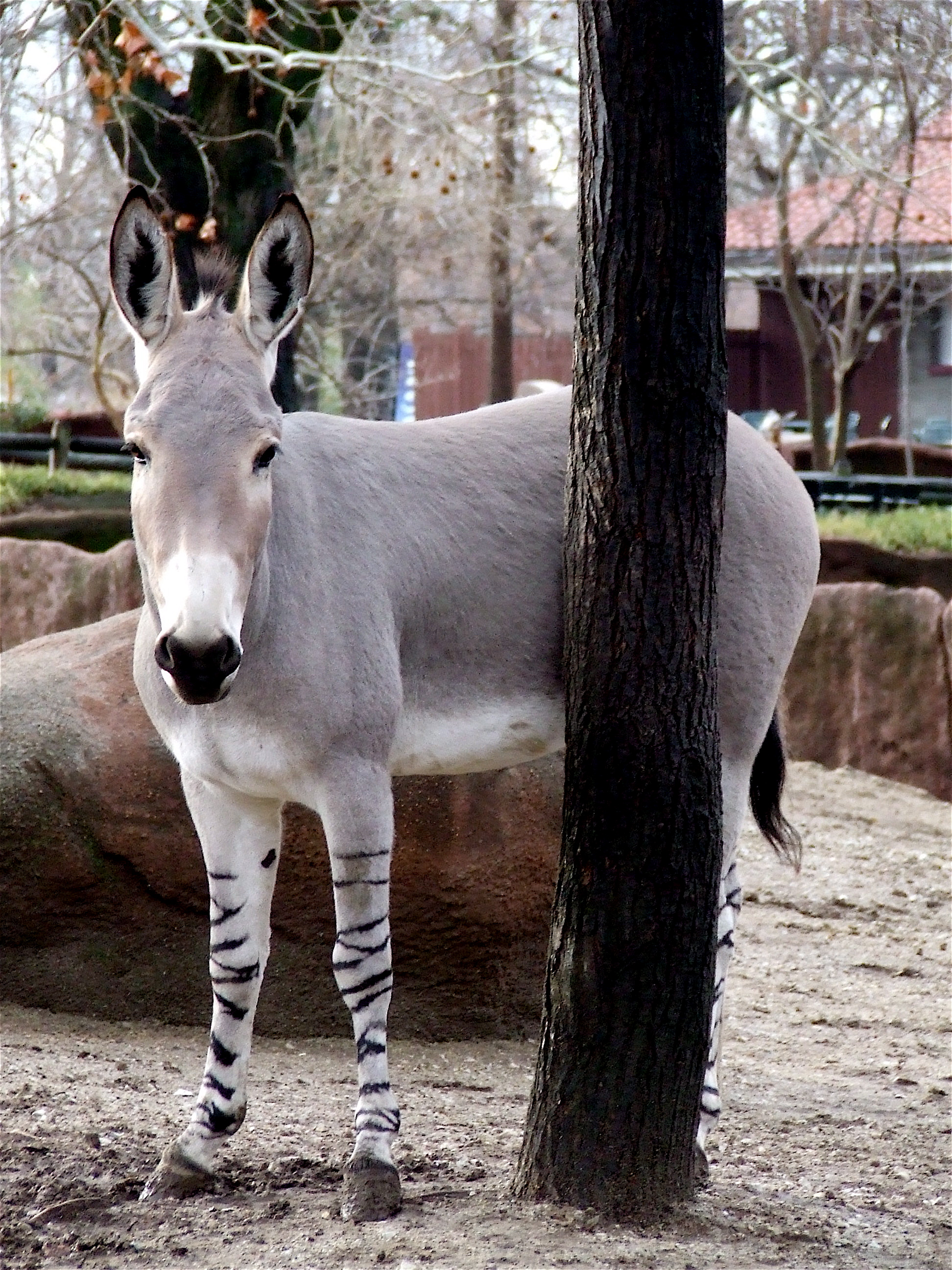 Wild Ass